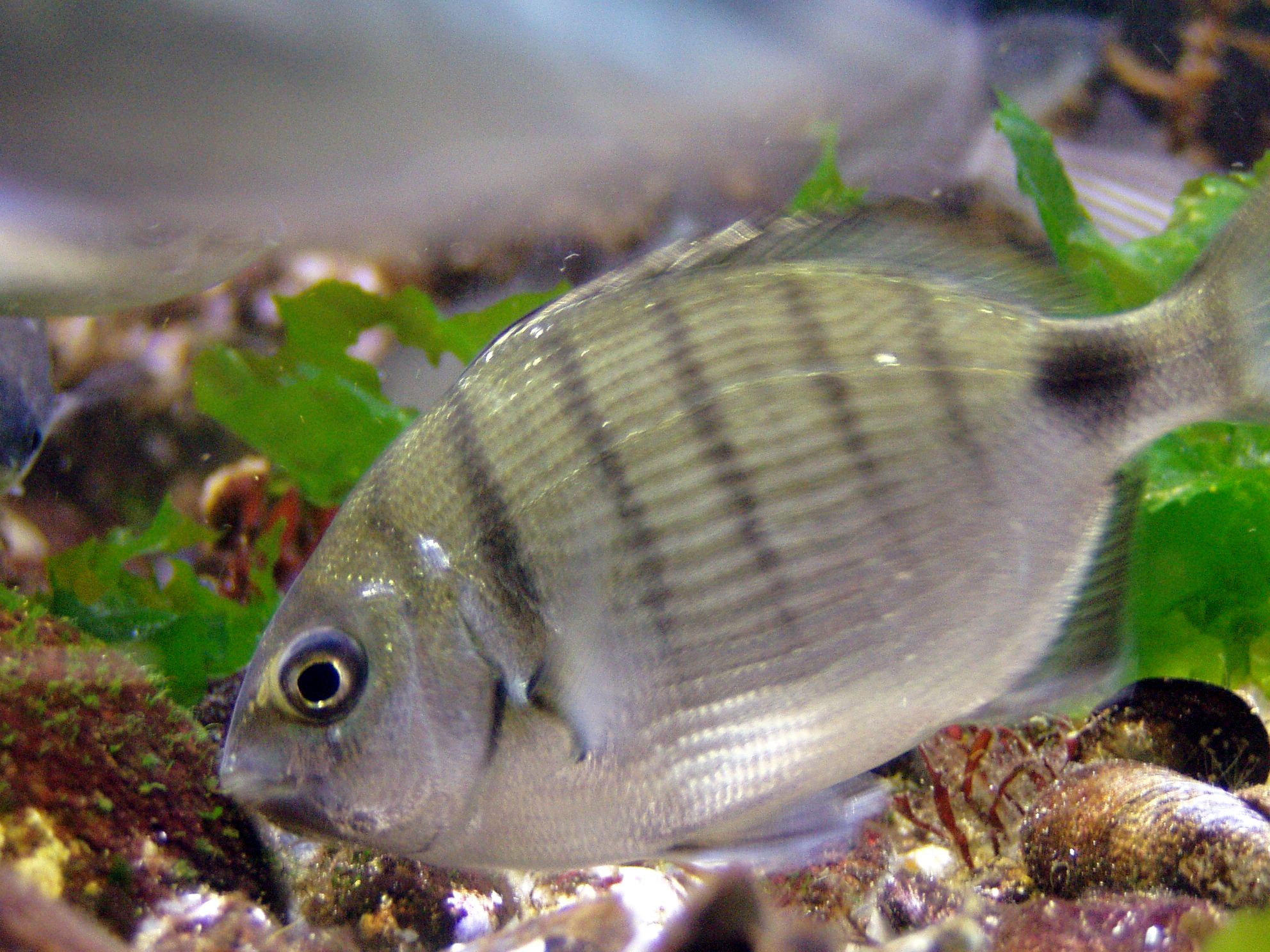 White seabream